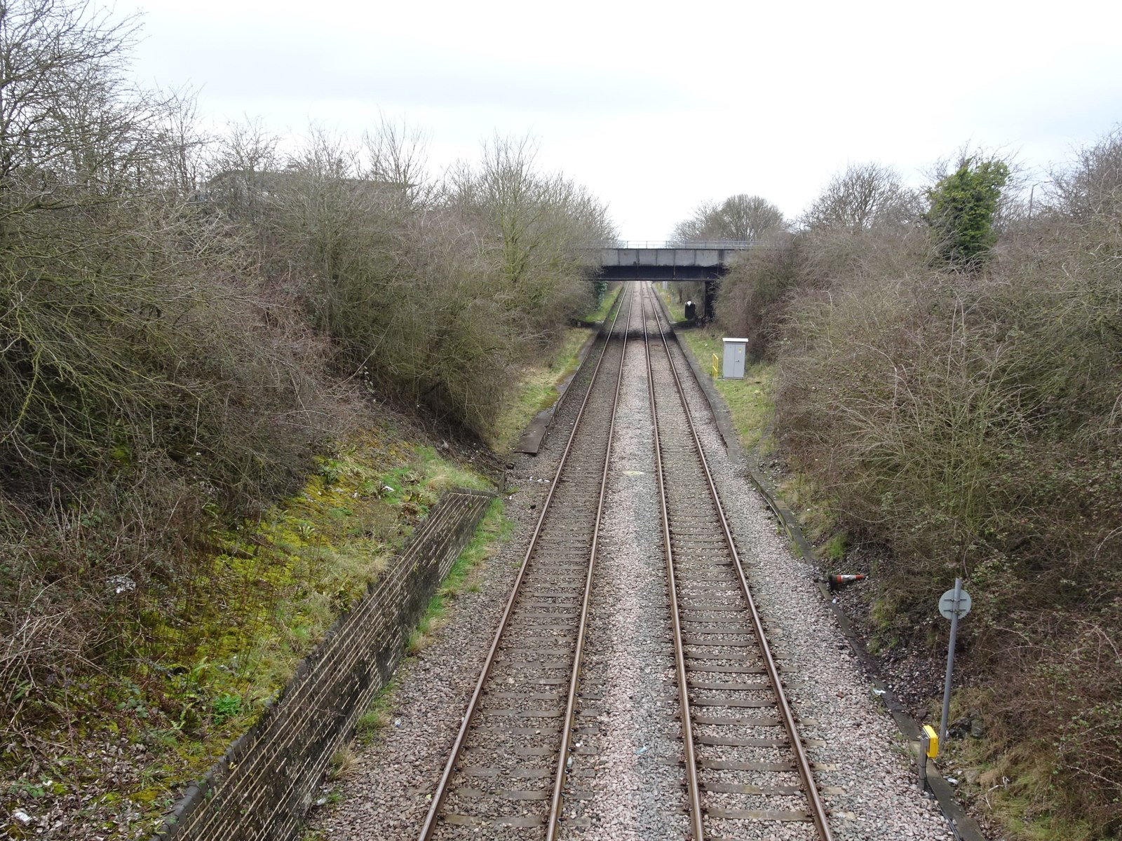 North Filton Platform railway station (site), GloucestershireOpened as a single platform 'Filton Halt' in 1910 by the Great Western Railway on the line from Filton Junction to Avonmouth Docks, this station closed in 1915. It was rebuilt as two platforms and reopened as 'North Filton Platform' in 1926, closing to passengers in 1964 and completely in 1966. View west towards Charlton Halt and Avonmouth.